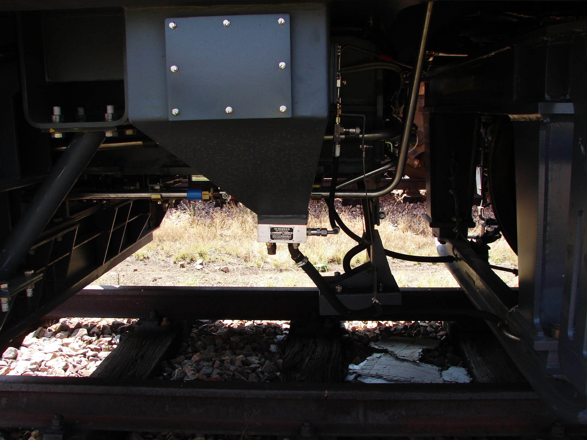 Track magnet sensor on TFR Class 22E no. 22-013Location: Pyramid South